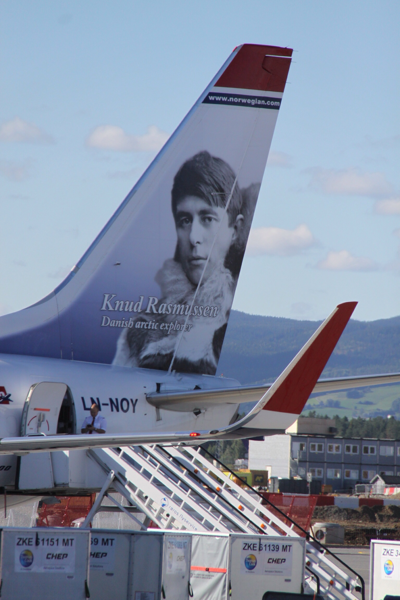 At Oslo Gardermoen